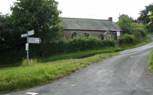 Bethesda Chapel at crossroads to Cefn-y-coed.